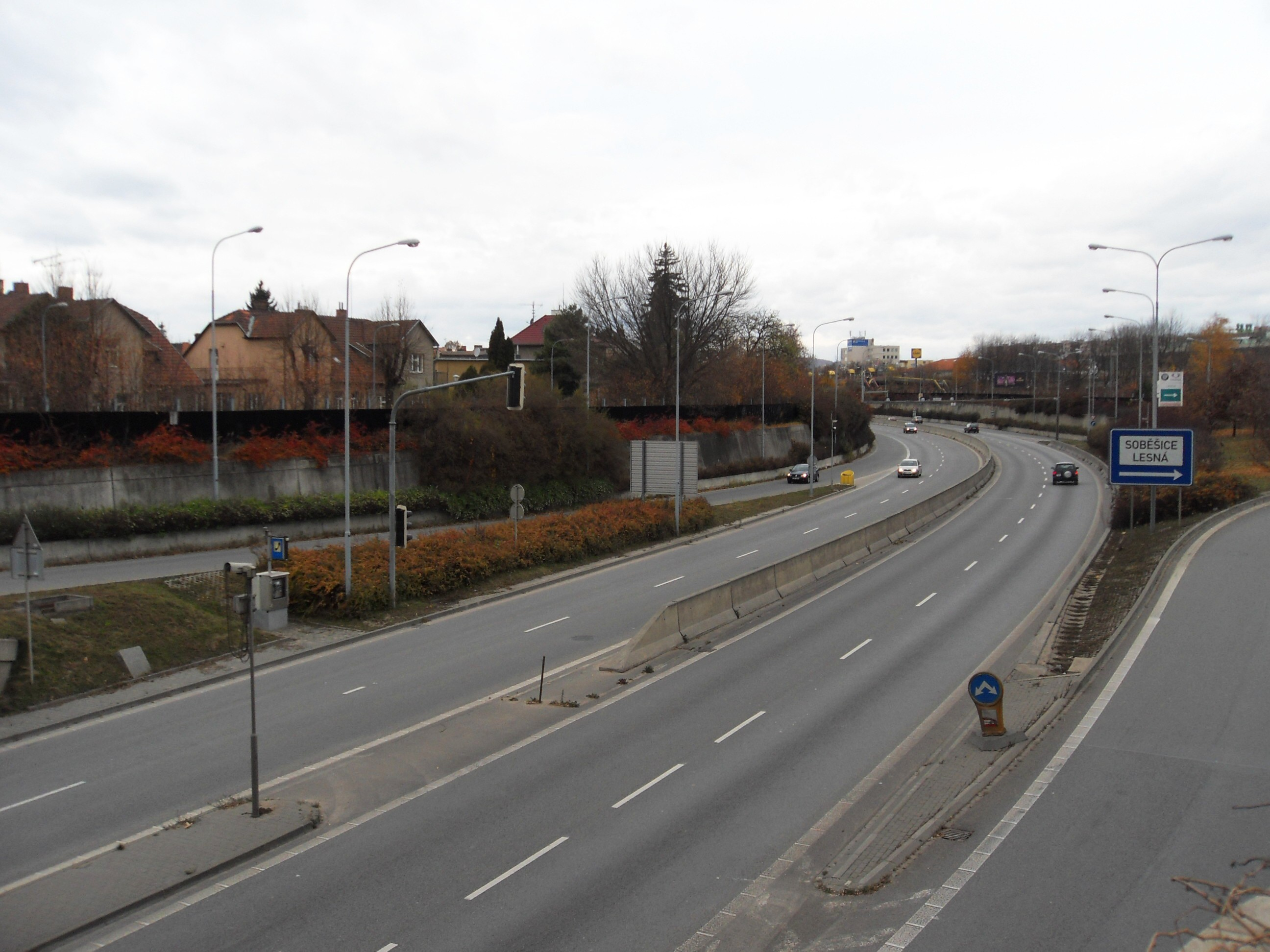 Road I/42, Brno, Czech Republic